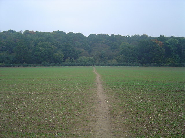 Watford: Whippendell Wood. Possibly the most boring photograph ever to be uploaded onto the site! Footpath, field, trees, sky. Whippendell Wood viewed looking eastwards, Rousebarn Lane runs behind the hedge at the bottom of the field.